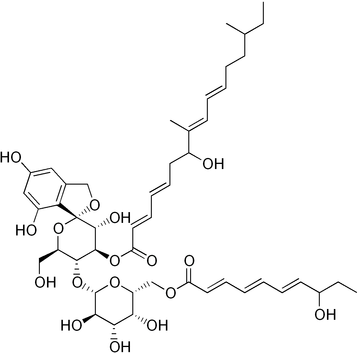 chemical structure of Papulacandin B